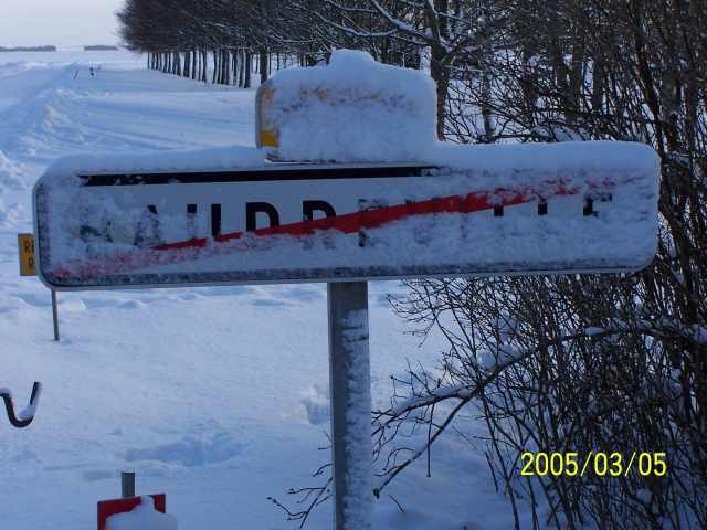 Snow in March 2005 at Baudreville (Centre, France). You can see the exit roadsign covered with snow.